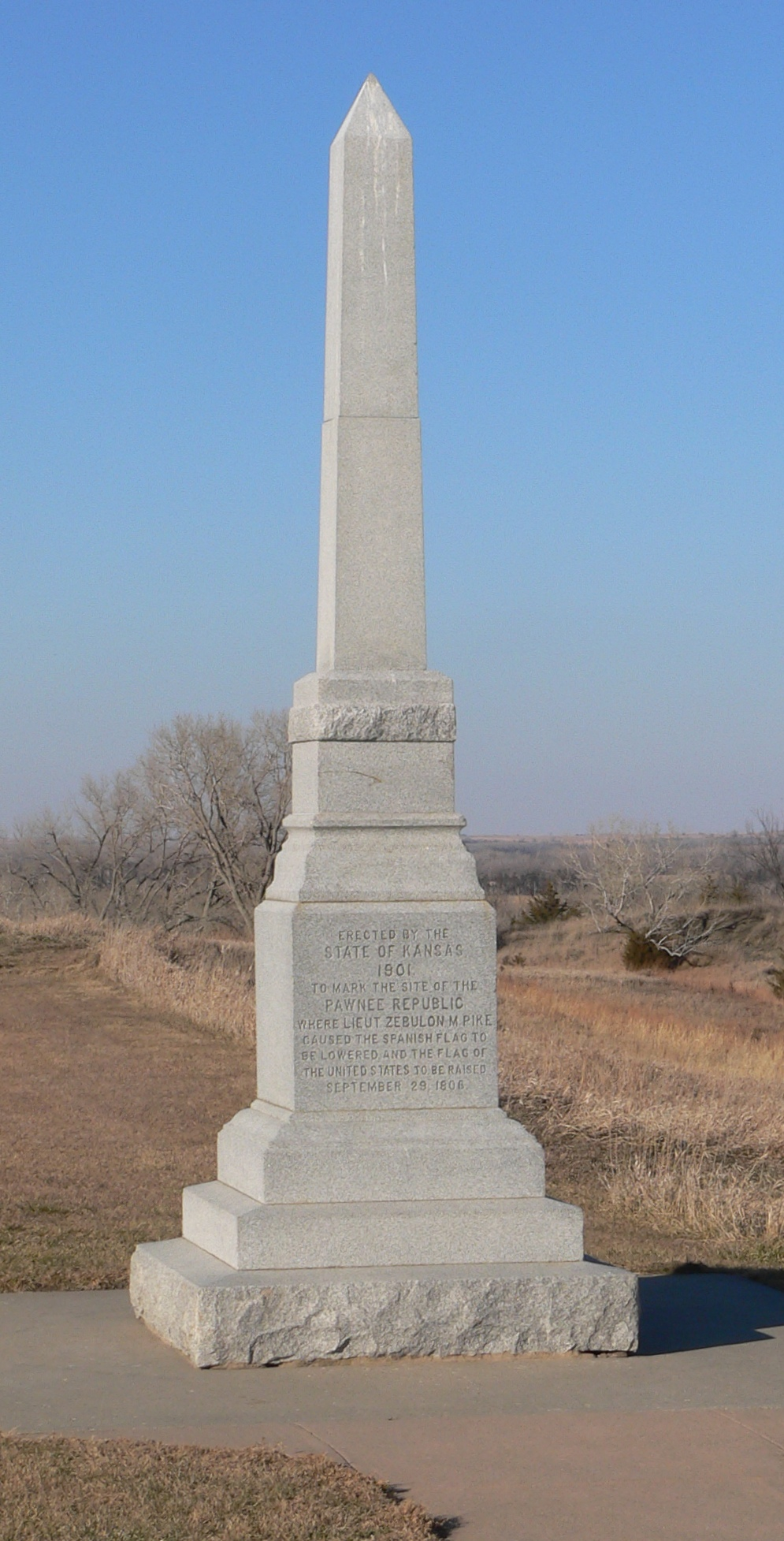 1901 monument at Pawnee Indian Museum State Historic Site, located near Republic, Kansas. The site is listed in the National Register of Historic Places.